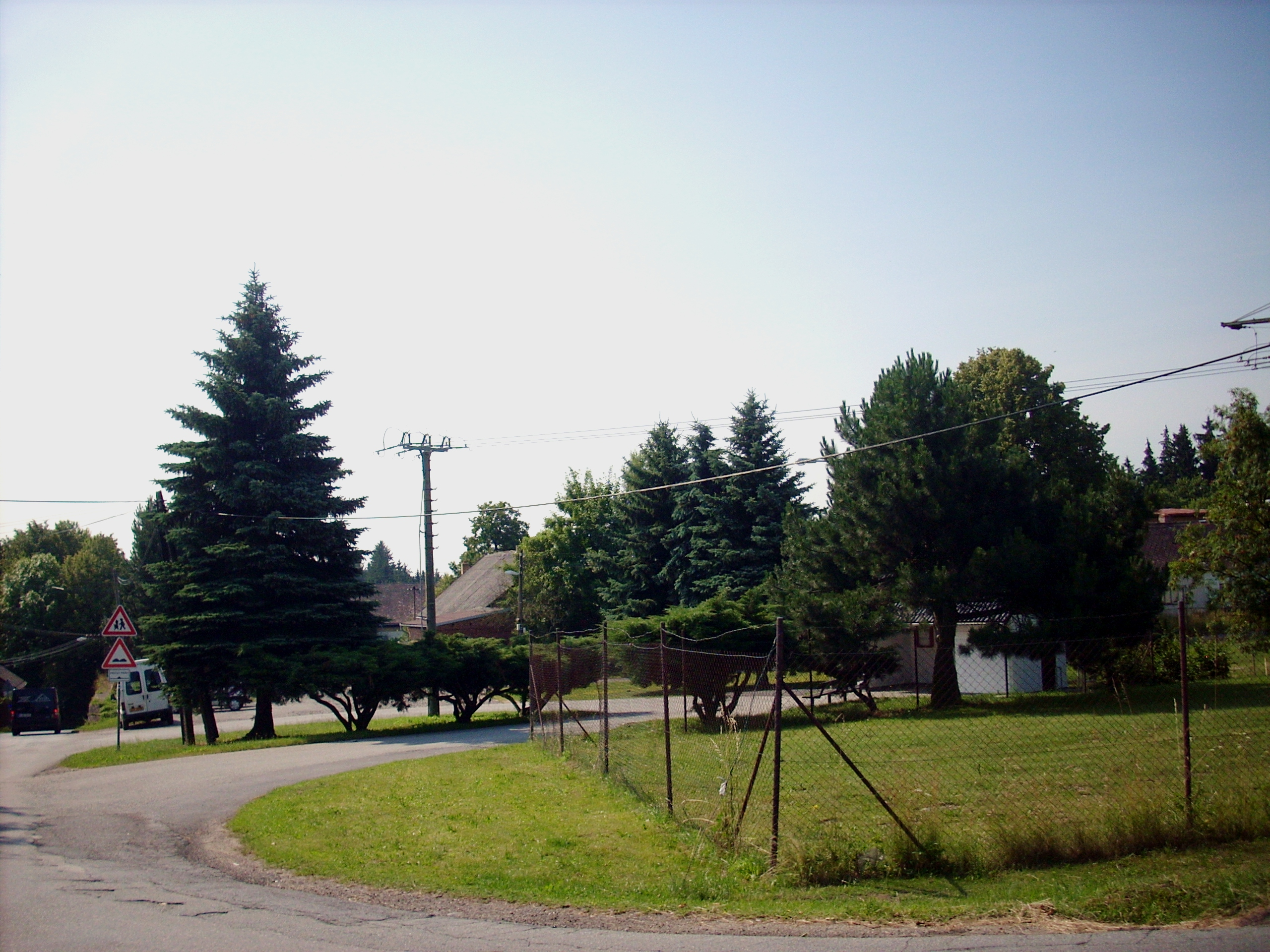 Henčov